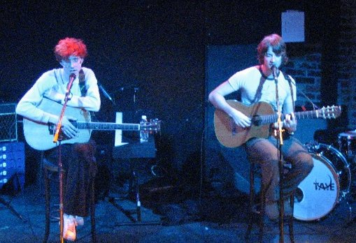 Band Kings of Convenience from Norway, live